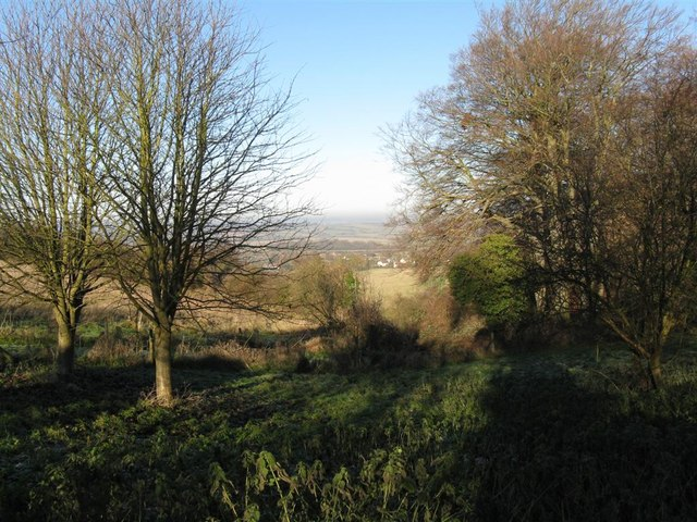 Sharpenhoe from the Clappers